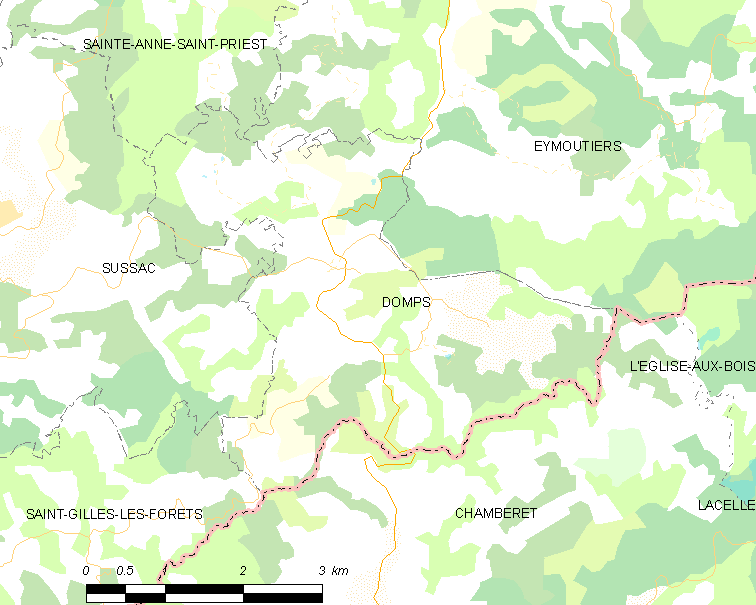 Map of French municipality Domps